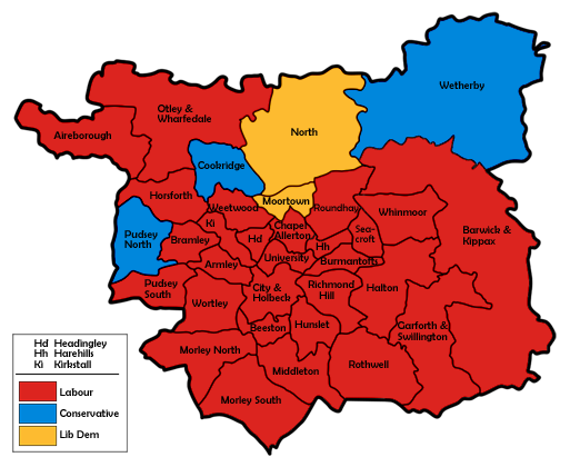 Ward map of Leeds City Council with political colouring for the 1996 election.